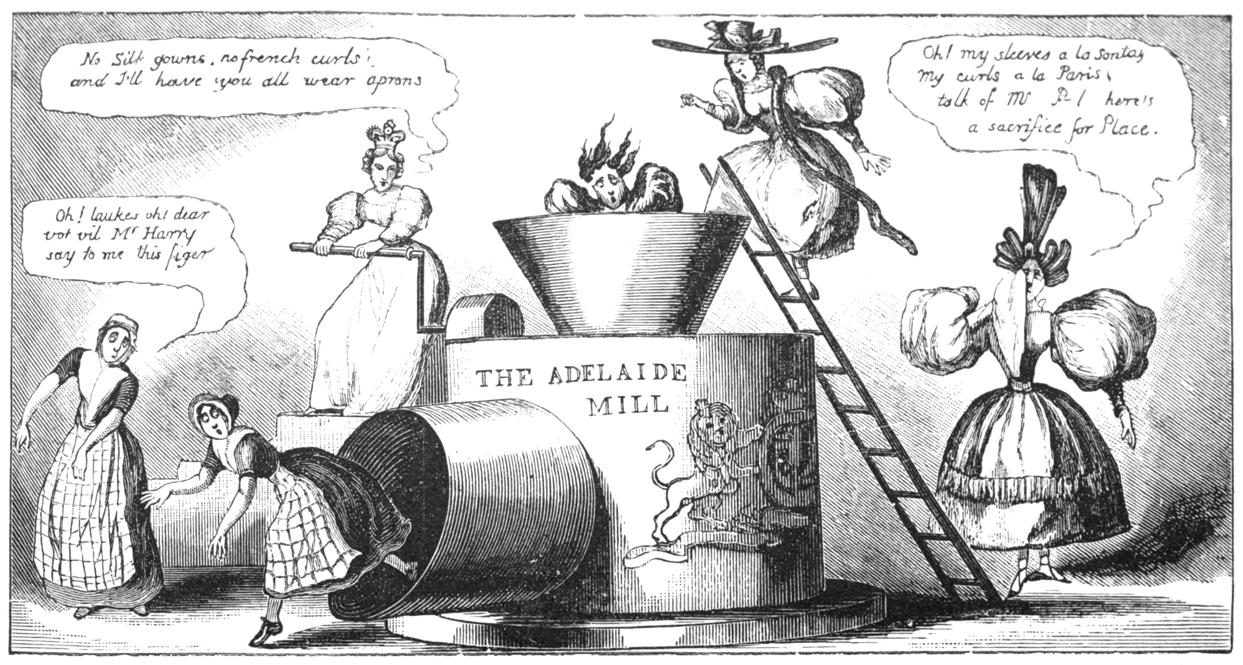 Caricature of Adelaide of Saxe-Meiningen, queen of William IV, insisting that her ladies-in-waiting(?) or servants(?) should discard the extravagances and eccentricities of 1830 fashion (huge leg-of-lamb sleeves, salad-plate hats, tight corseting) and be dressed in a sober and plain style. The women complain about their transformation. Illustration from English Caricaturists and Graphic Humourists of the Nineteenth Century, by William Rodgers Richardson (writing as Graham Everitt) Engraving by Robert Seymour Captioned "The Adelaide Mill."